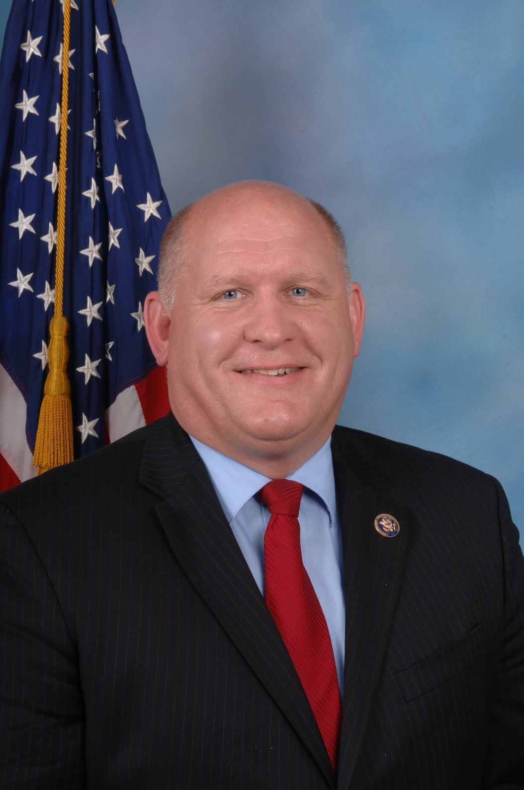 Glenn Thompson, House Representative from Pennyslvania